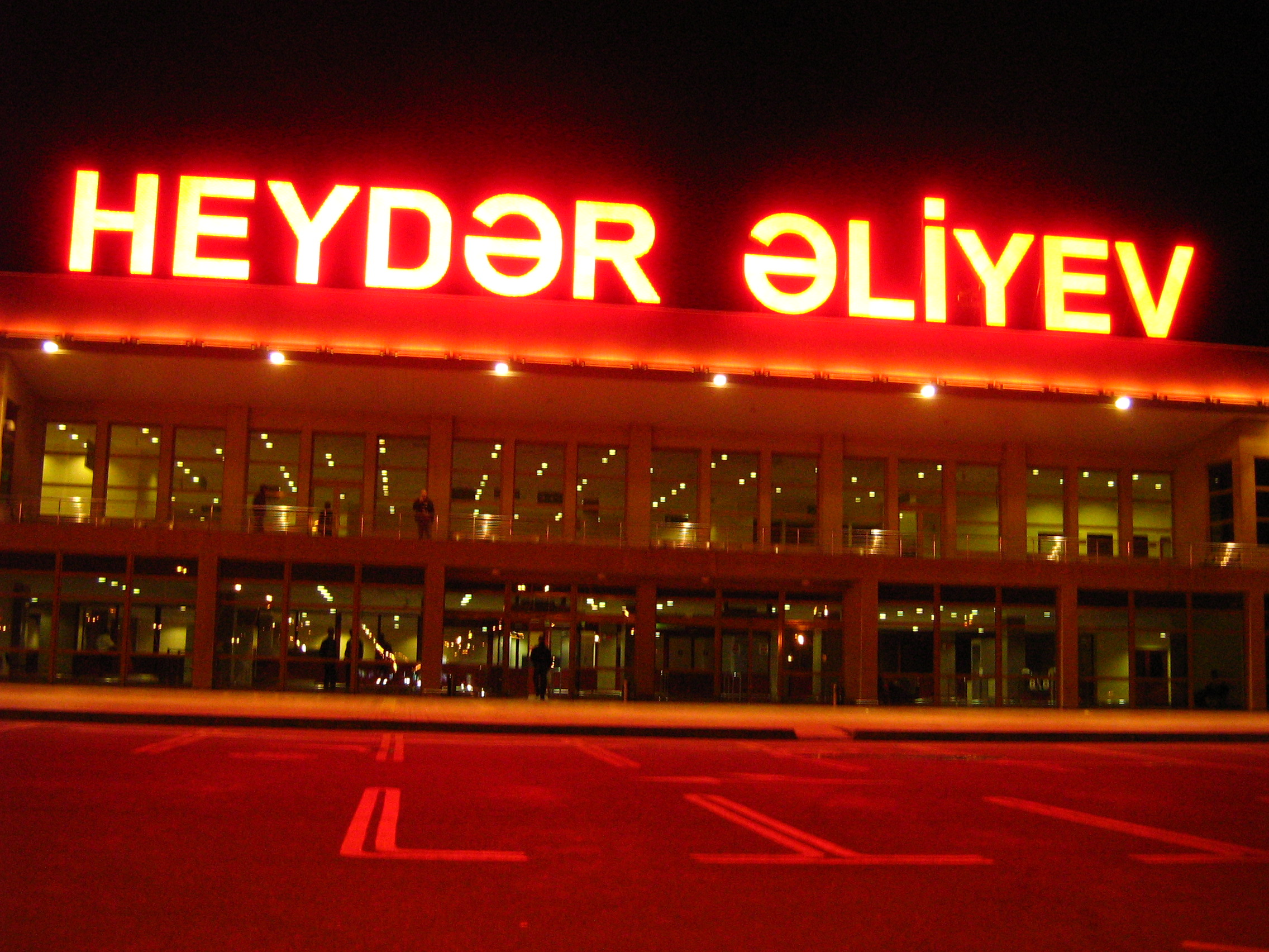 Heydar Aliyev International Airport. Domestic terminal at night